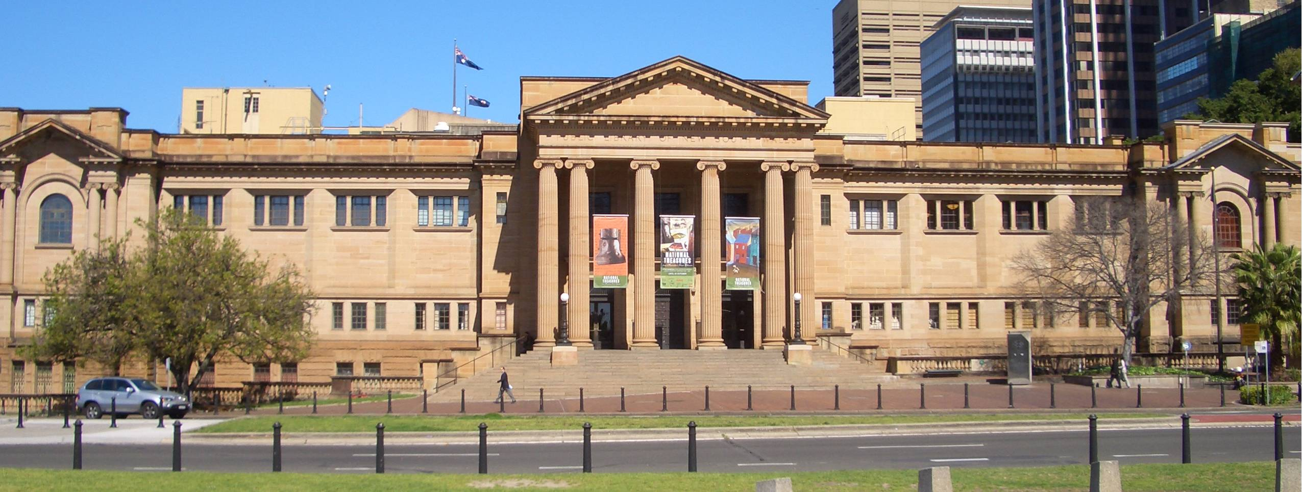 Mitchell Library, Sydney, Australia. I took this photo on the 1st September 2006. J Bar 00:24, 4 September 2006 (UTC)